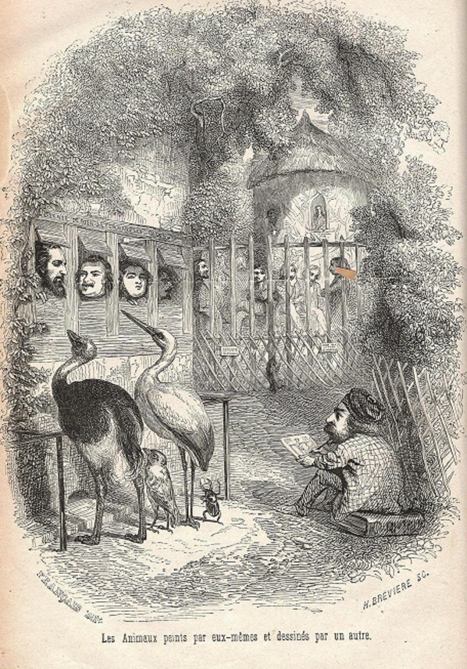 From left to right Hetzel, Balzac Janin painted by Grandville